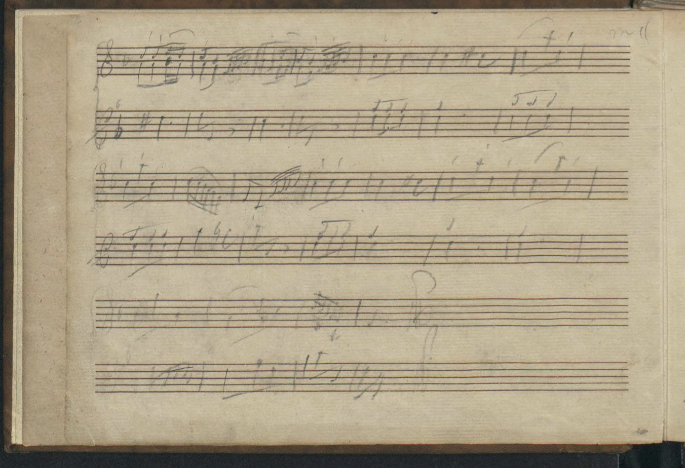 2nd page from the "Londoner Skizzenbuch"